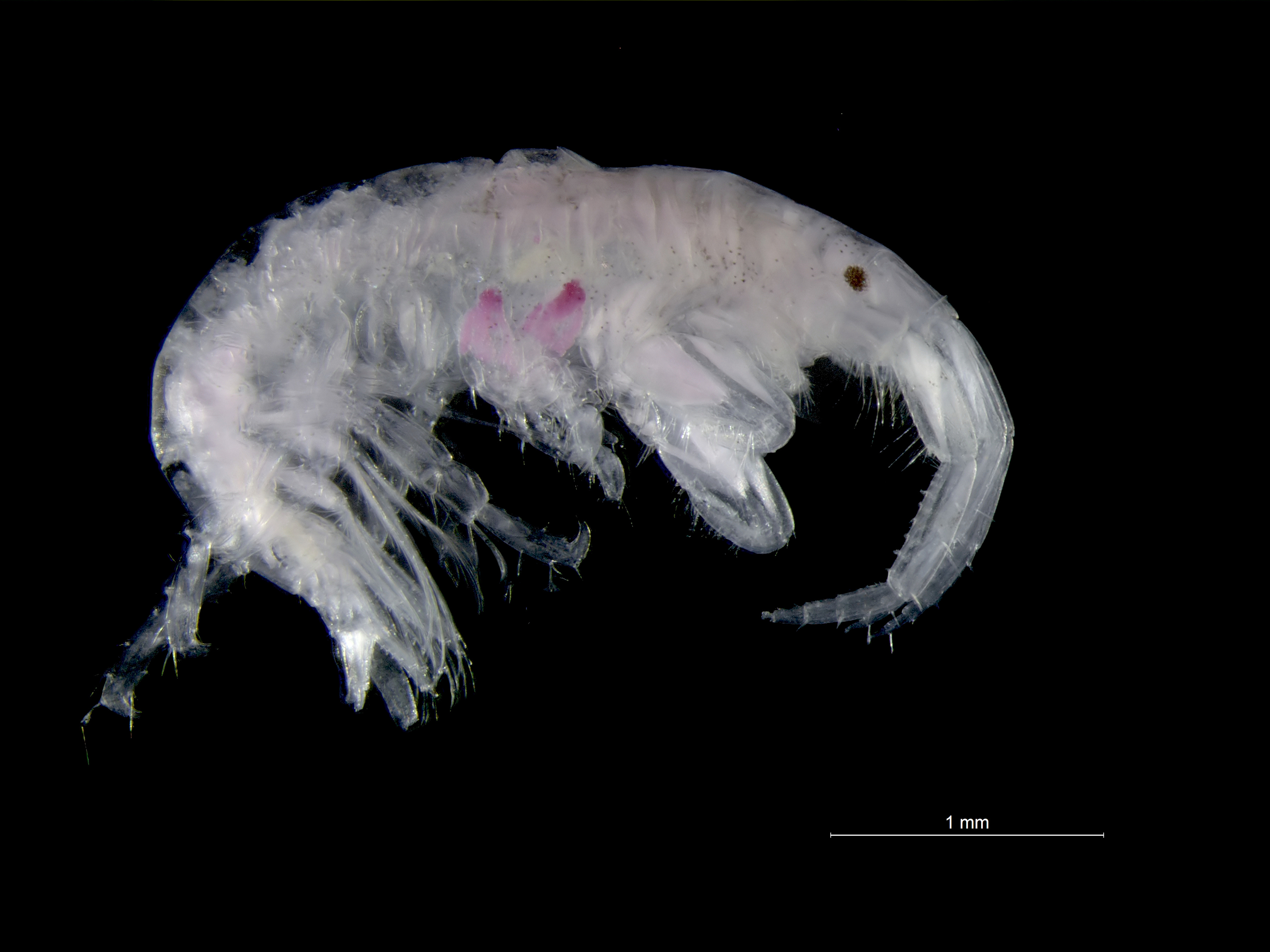 A benthic amphipod from the Belgian part of the North Sea. Length = 4 mm Focus stacking of 9 pictures.